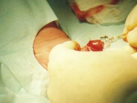 Plastibell off glans.